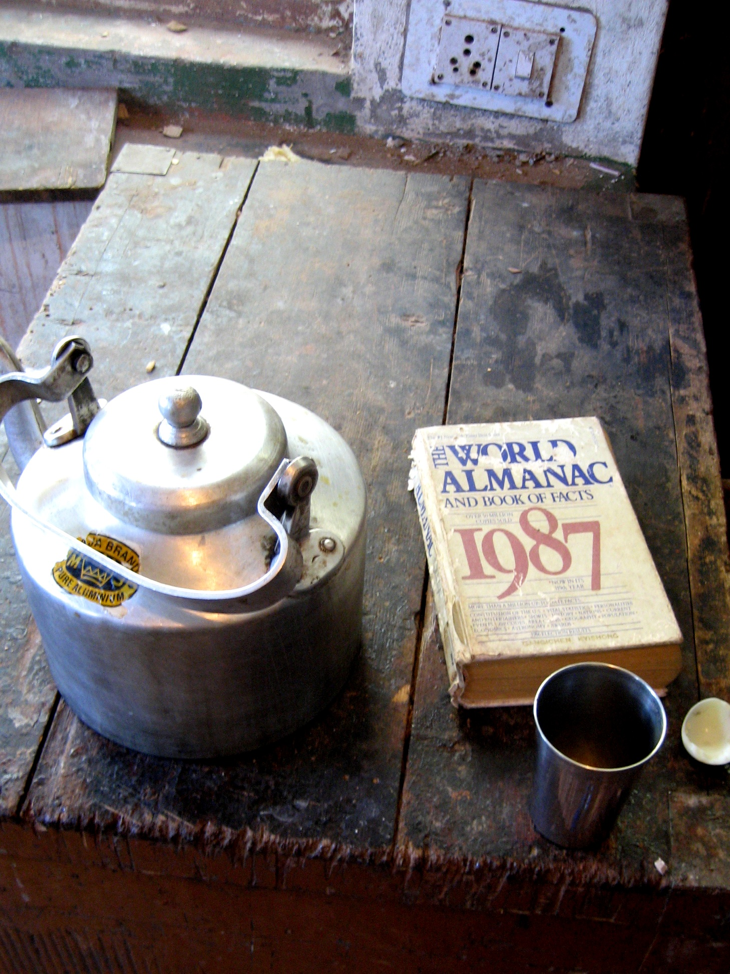 At TIPA. The World Almanac and Book of Facts, 1987, beside a Tea Kettle, Instrument workshop, Tibetan Institute of Performing Arts, Dharamsala.